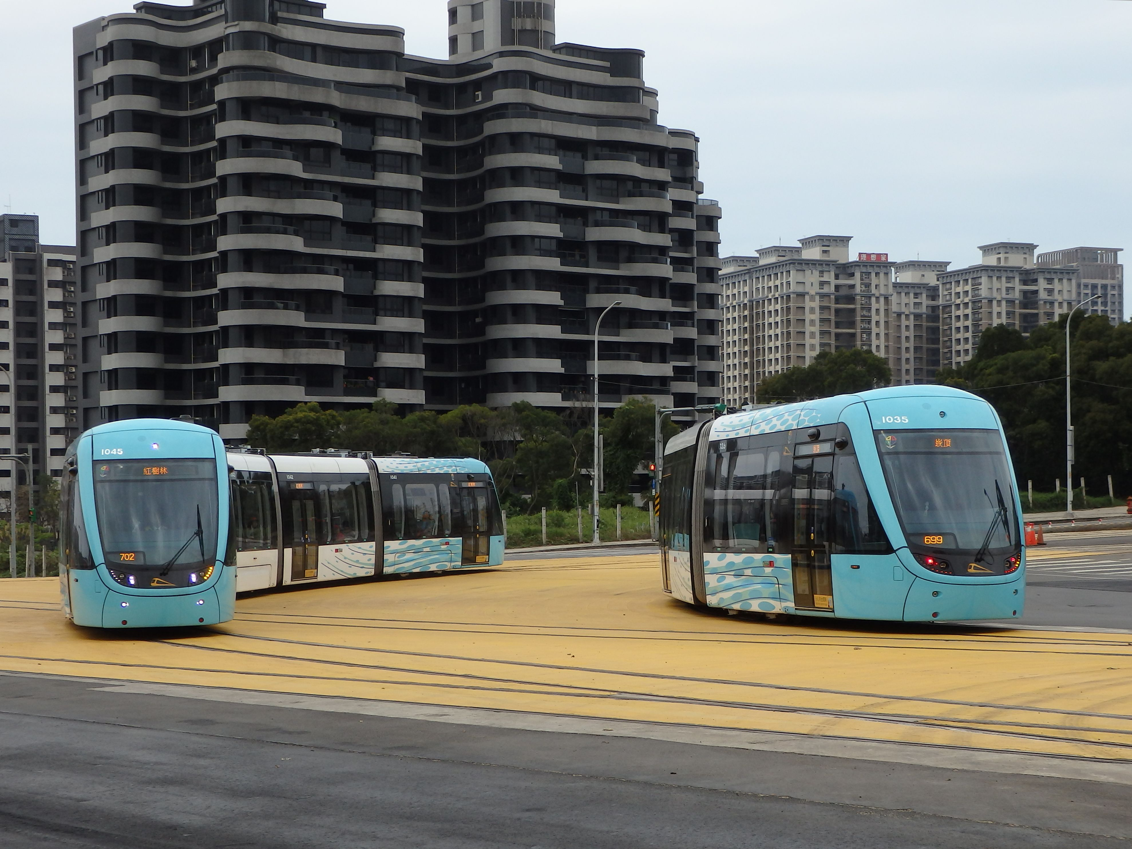 Danhai Mass Rapid Transit Lushan Line between Binhai Shalun Station and Danhai New Town Station